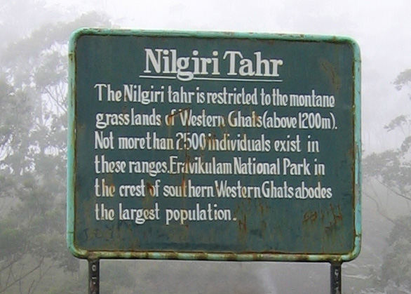 Munnar - views from Munnar